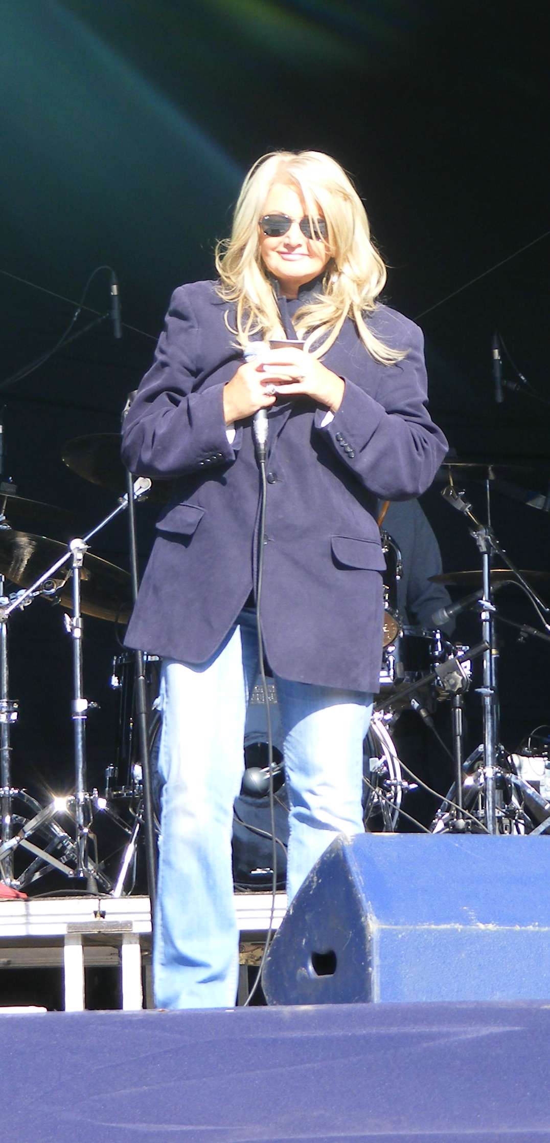 Bonnie Tyler taken during the sound check of her concert in Dolina Charlotty, Poland.